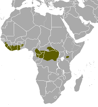 Range map of the Bongo (Tragelaphus eurycerus) according to: IUCN SSC Antelope Specialist Group 2008. Tragelaphus eurycerus. In: IUCN 2011. IUCN Red List of Threatened Species. Version 2011.2. . Downloaded on 18 May 2012.